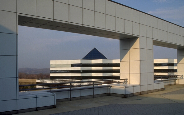 Facility at Somers